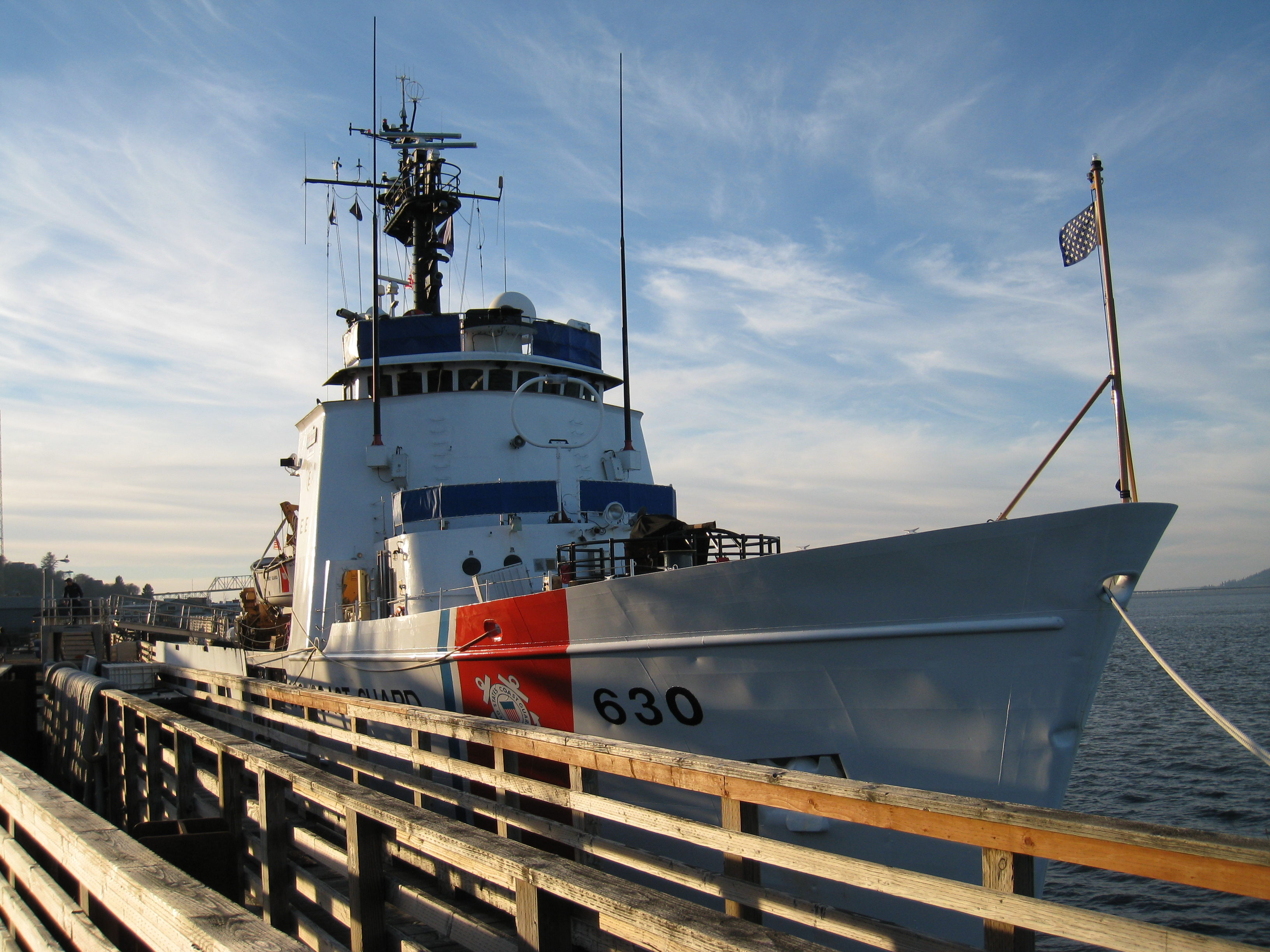 In dock at Astoria. (website)